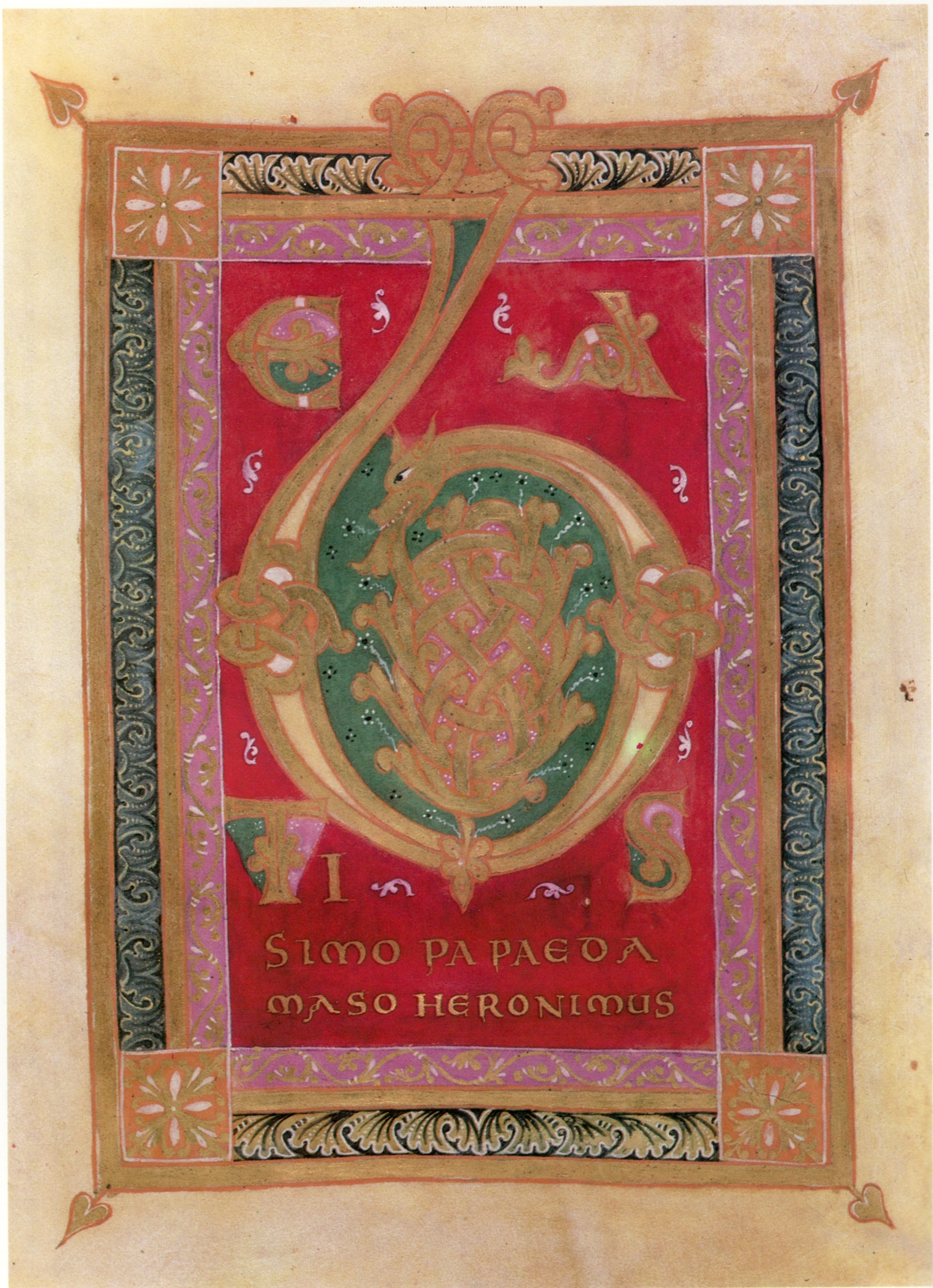 John Rylands Library Ms. 98, fol. 1v: Initial